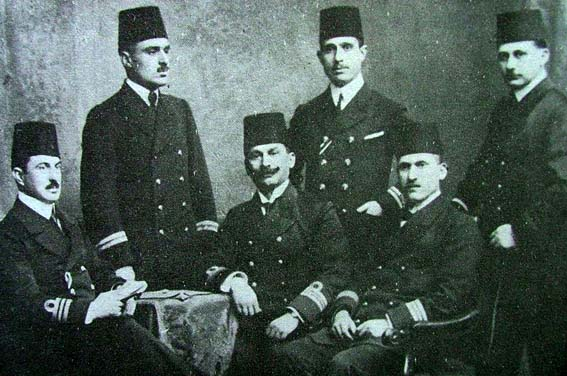 Ottoman officers of the submarine command